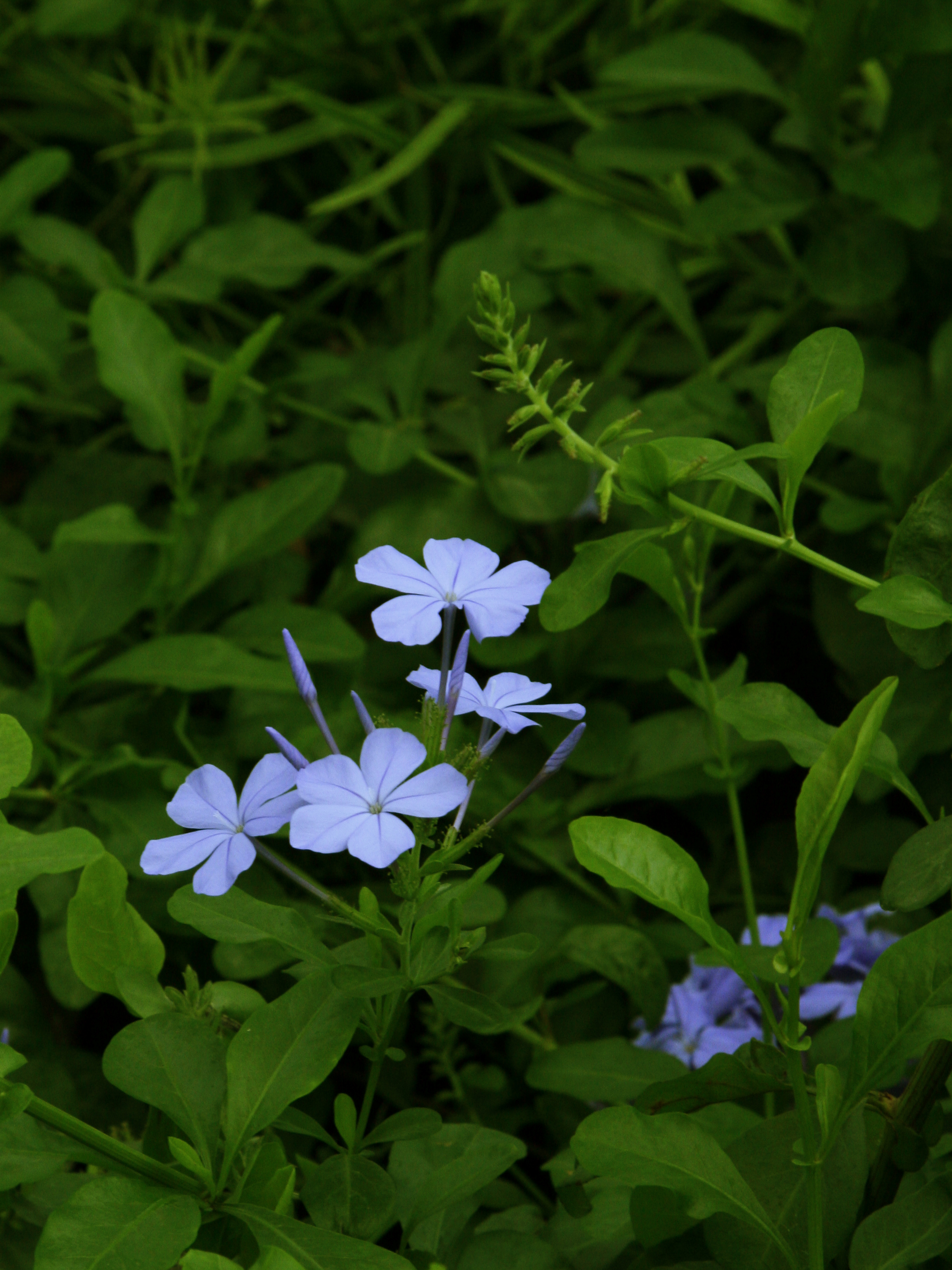 Foilage and flowers from Cape Leadwort (Plumbago auriculata). Fjärilshuset, Stockholm, Sweden.